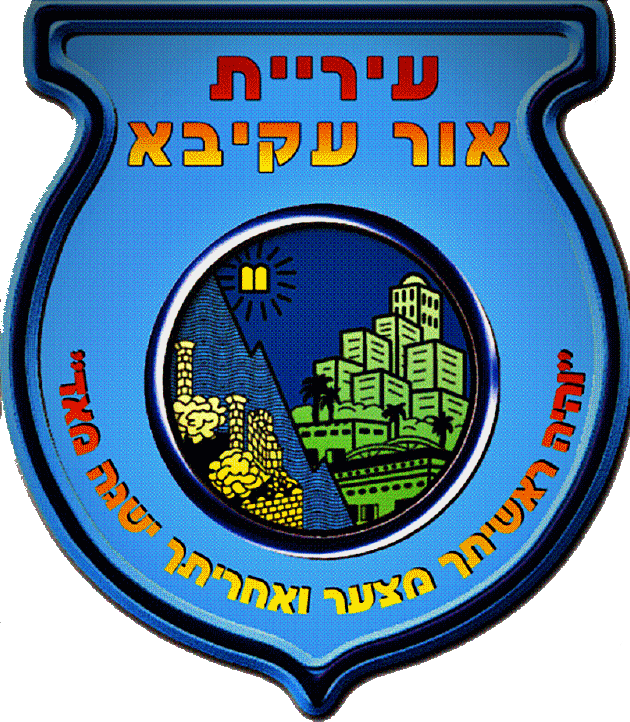 Coat of Arms of the town of Or Akiva